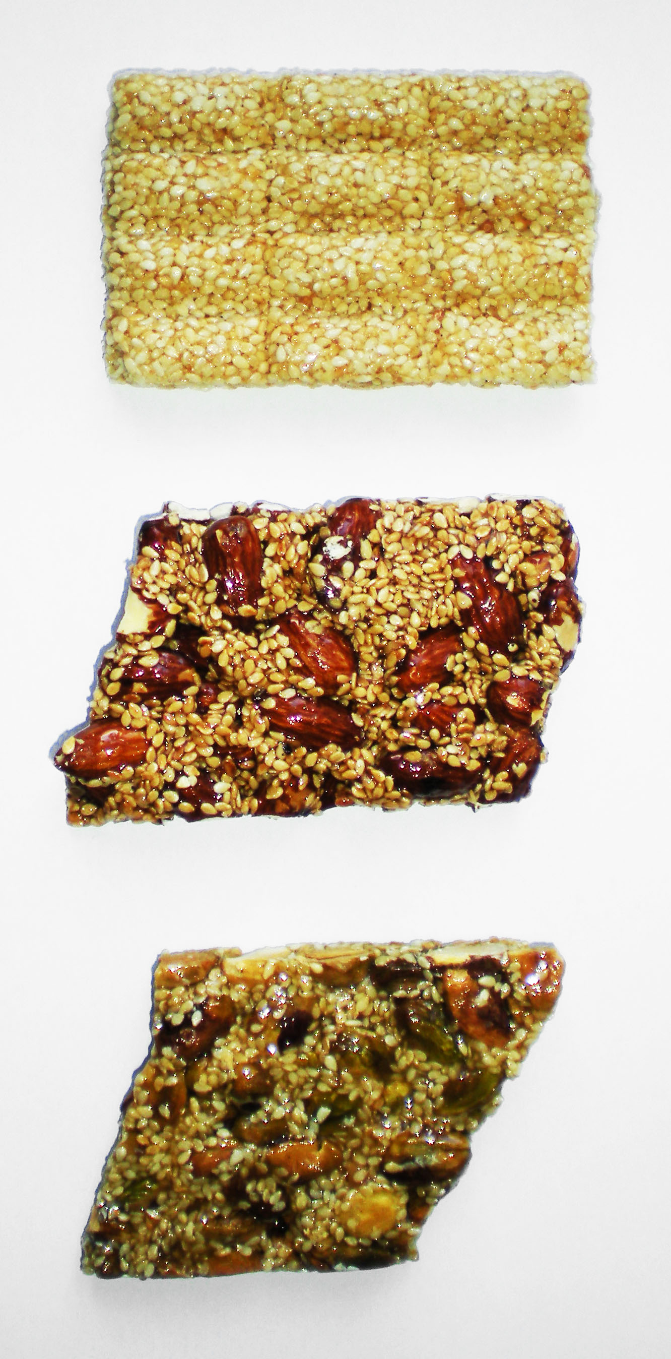 Pasteli bars (1. sesame seeds, 2. almonds, 3. pistachios)